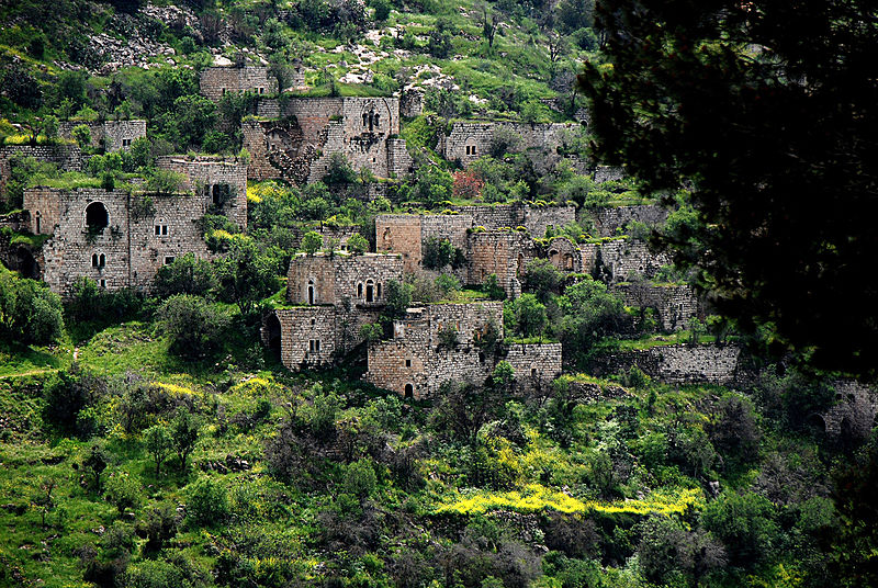 Former Arab village known as Lifta, near Jerusalem